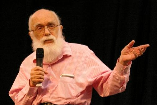 James Randi with some expensive art